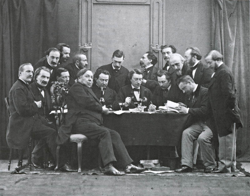 The editorial board of De Nederlandsche Spectator in 1864. From left to right: T. van Westrheene, J. De Witte van Citters, J.J. Cremer, Jan ten Brink, Arnold Ising, J Bosboom, R.C. Bakhuizen van den Brink, M.F.A.G. Campbell, P.A.S. van Limburg Brouwer, C. Vosmaer, S.L. Verveer, M. Schmidt Crans, J. Cram, S. Van den Berg, L. Mulder, M. Nijhoff and P.J.B.C. Robidé van der Aa; among the signatures: J.Ph. Koelman. Photograph Letterkundig Museum, The Hague